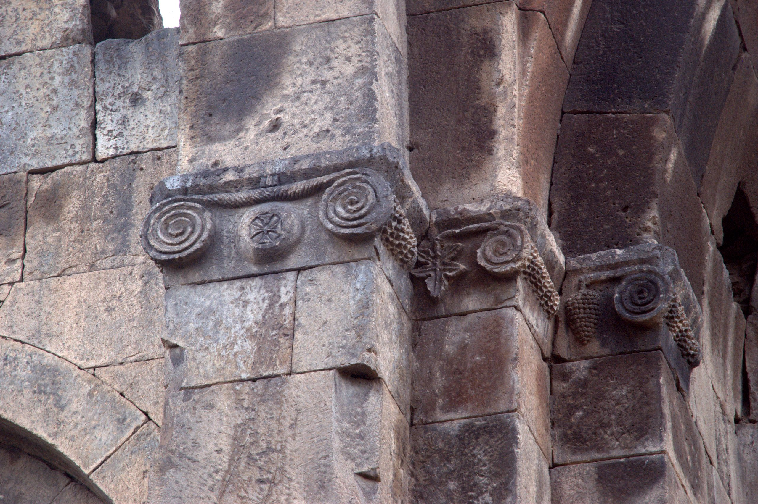 Ptghni, church impost